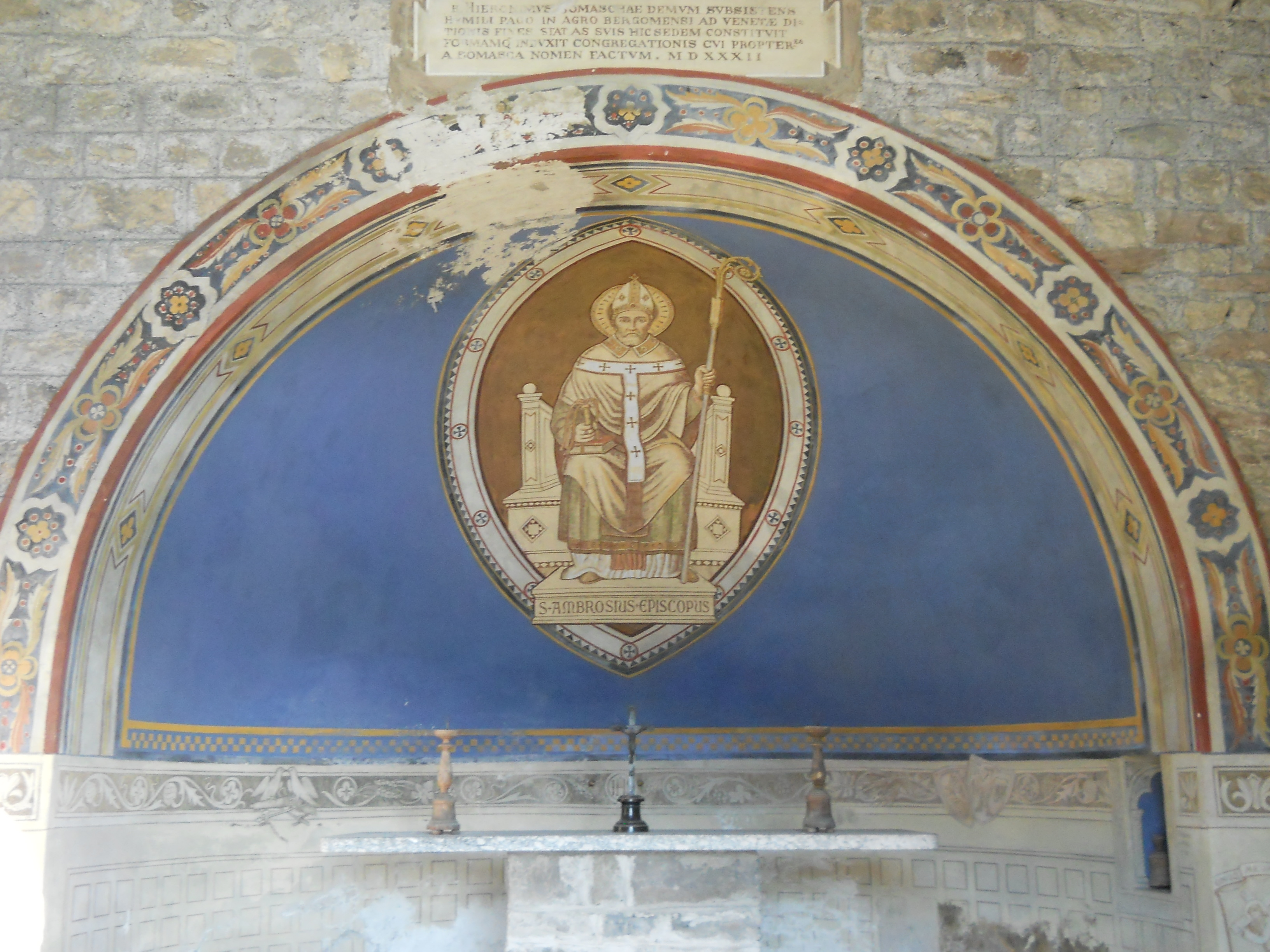 Fresco depicting St. Ambrose, chapel of Sant'Ambrogio alla Rocca,Sanctuary of Valletta, Somasca, Vercurago, Lecco, Italy